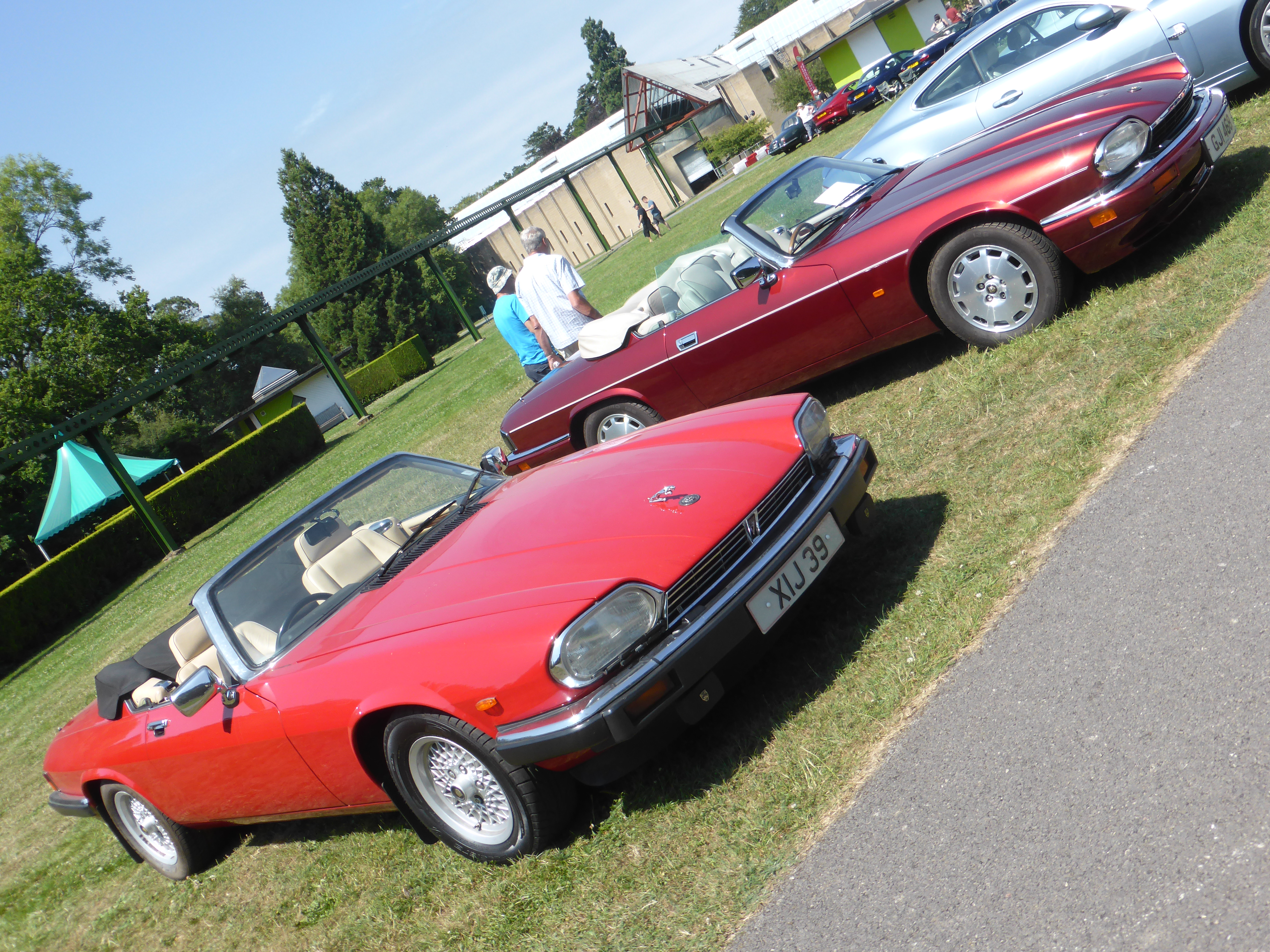 Simply Jaguar event at Beaulieu (National Motor Museum)